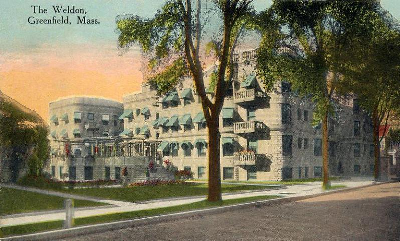 The Weldon, Greenfield, MA; from a 1913 postcard. Designed by W. B. Reid, the hotel was added in 1980 to the National Register of Historic Places.